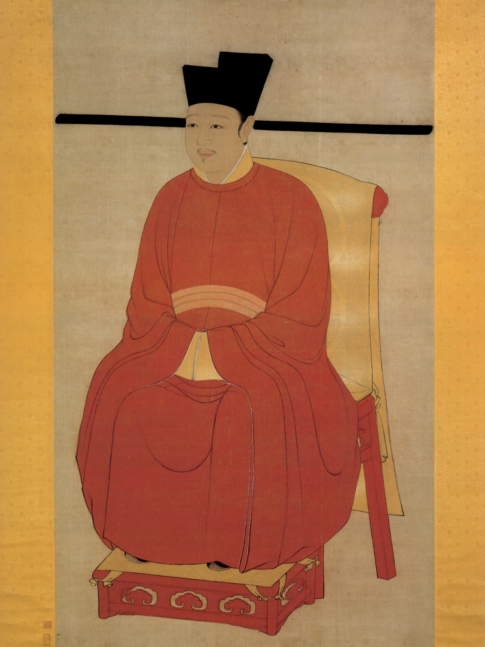 Emperor Huizong of Song, emperor of China from 1100-1126 AD.